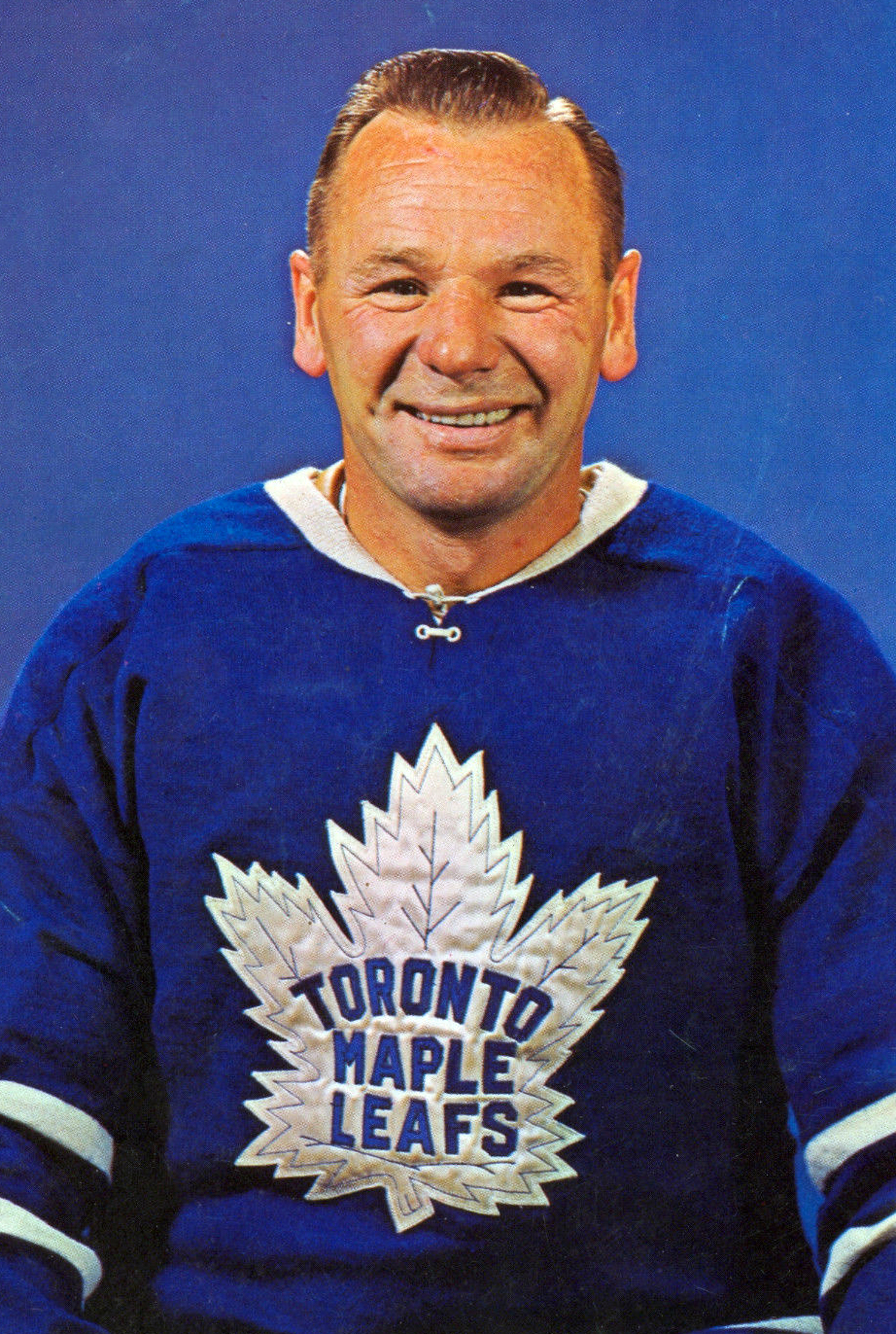 Johnny Bower, Toronto Maple Leafs Printed on Chex Cereal Boxes from 1963 to 1965 per [1] and [2]. No copyright notices are observed on the obverse or reverse of the photos.